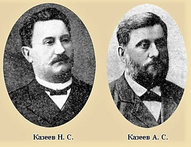 Братья Казеевы - купцы, владельцы суконных фабрик